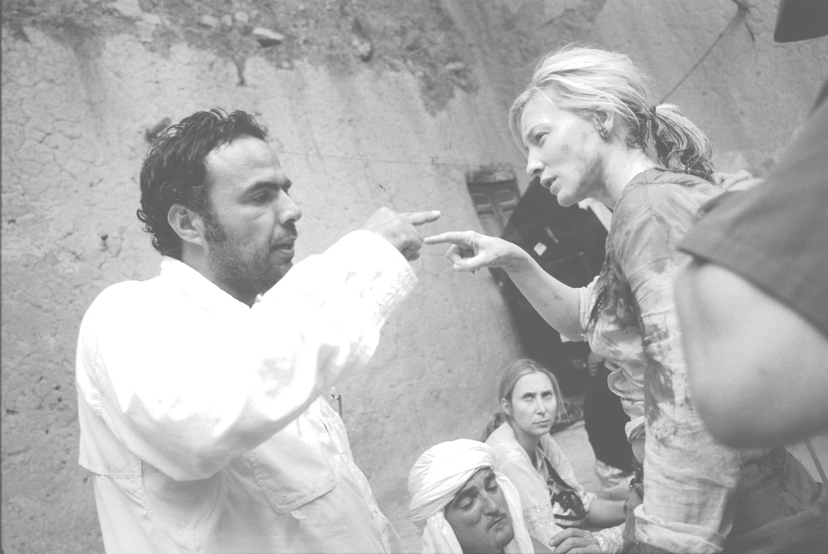 Iñárritu and Blanchet